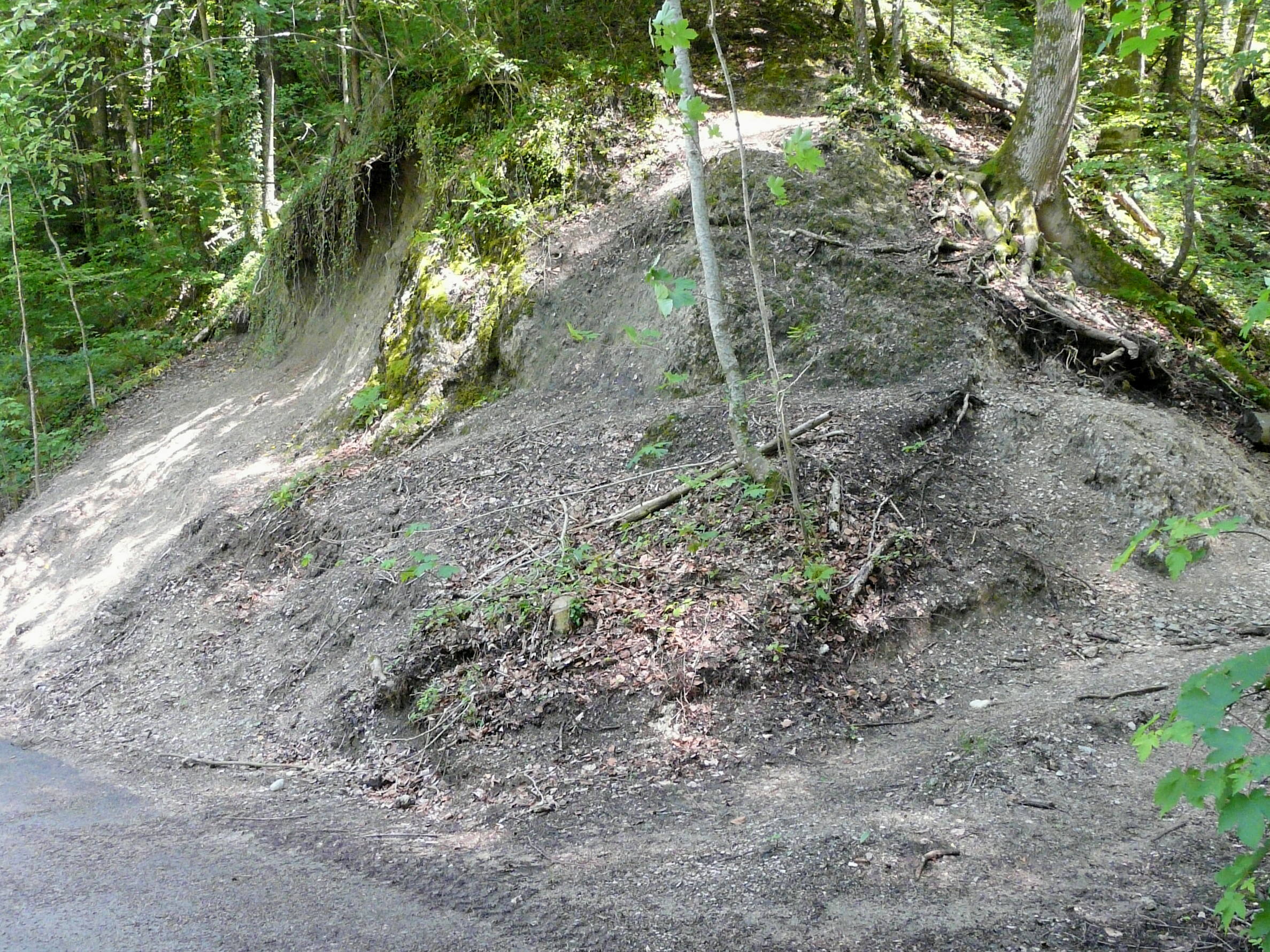 geotope, nummulites-riff, Adelholzen Formation (Eozän), foraminifera in marl, Geotop Number: 189A025